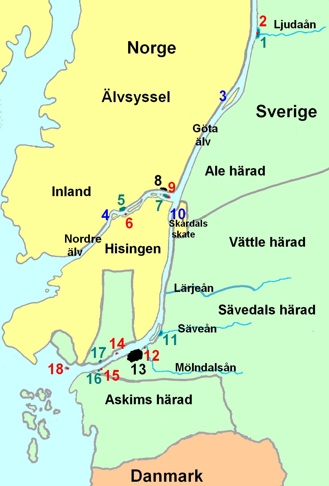 Towns and castles around the island Hisingen (Norwegian and Swedish) between 1250 - 1658. 1. Lödöse town (late 11th century according to archeology - 1646) 2. Lödöse castle (late 12th century - 1473) later Lödöse fortification 3. Tjurholmen island (Norwegian-Swedish meeting 1303 to solve border issues) 4. Gullö island 5. Kongahälla town (approx. 950 according to Saga, early 12th century according to written sources - 1612) 6. Ragnhildsholmen castle (approx. 1250-1319) 7. Ny-Kungälv town (1613- approx. 1670) 8. Kungälv town (approx. 1640- 9. Bohus castle and fortress (1308-1783) 10. Jordfallet (large landslide into the river Göta älv approximately 1250) 11. Nya Lödöse town (1473-1624) 12. Gullberg castle (1304-1469) later fortress and fortification Skansen Lejonet 13. Göteborg town (Gothenburg) (1621- 14. Lindholmen castle (approx. 1330-approx. 1360) 15. Älvsborg castle (approx. 1360-approx. 1650) 16. Älvsborg town (1545-1570) 17. Karl IX Göteborg town (1603-1611) 18. New Älvsborg fortress (approx. 1650-1869)